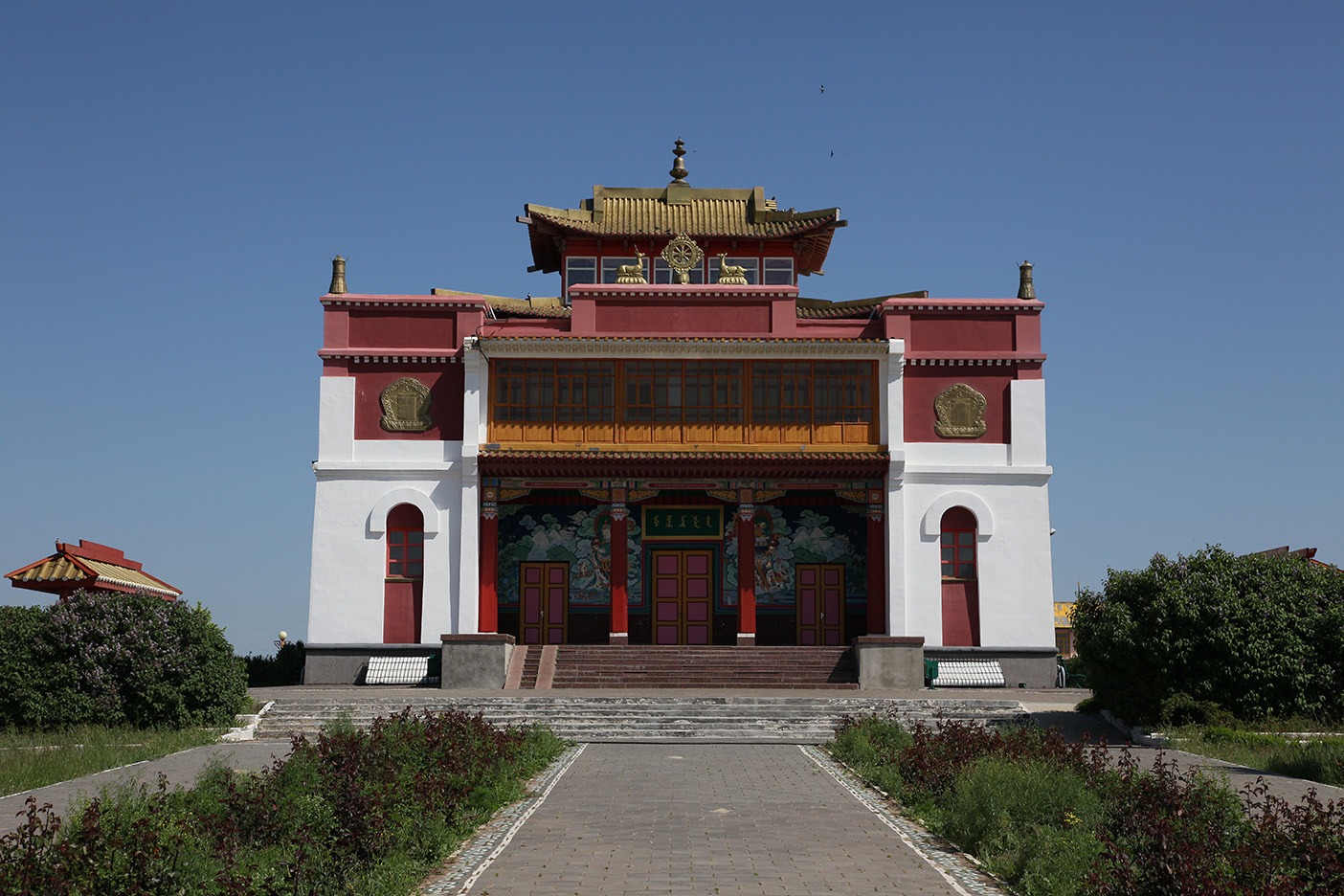 The Syakyusn-Syume Temple (Храм Сякюсн-сюме хурульного комплекса Геден Шеддуп Цойкорлинг), opened in 1991, at the out-skirt of Elista, Republic of Kalmykia, Russian Federation